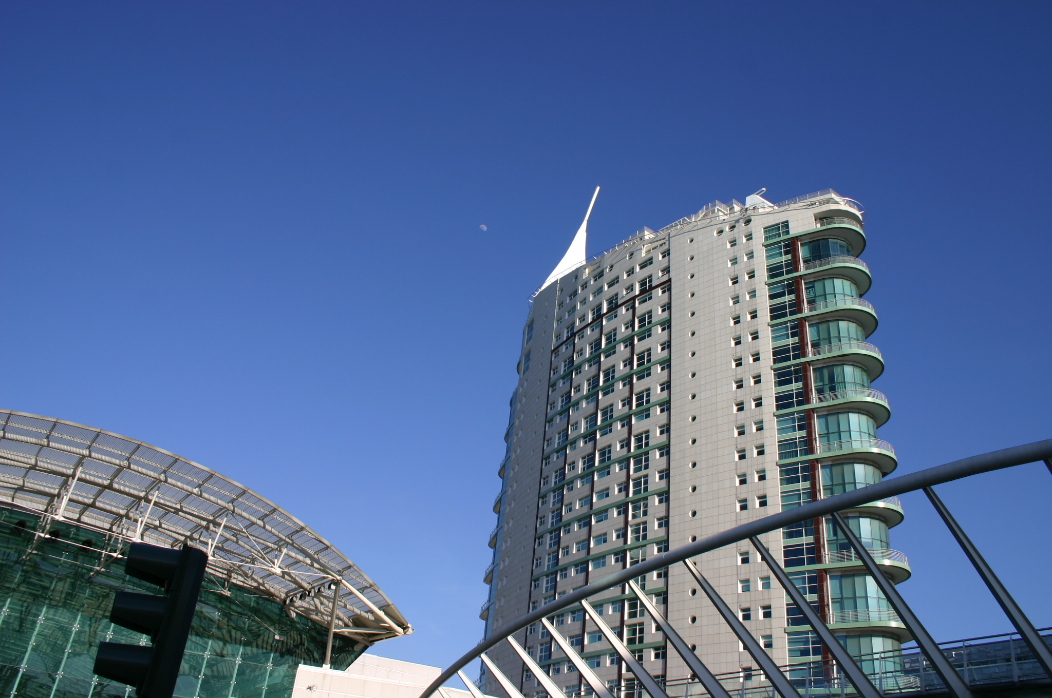 Camera: Canon EOS 300D with Canon EFS 18-55mm lenses; Location: Lisboa